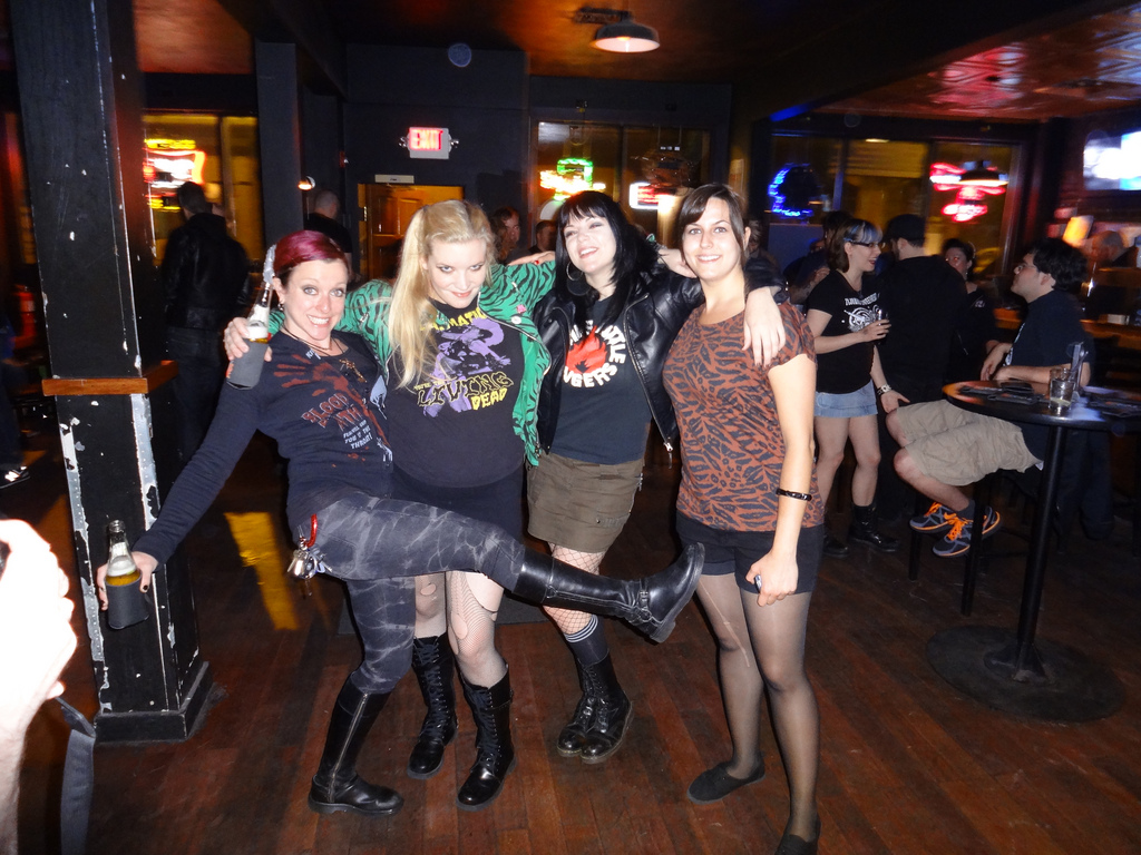 Tijuana Sweetheart at final show, 02 June, 2012. (l to r) LoWreck, Hellion, Julie Two Times, and Keri